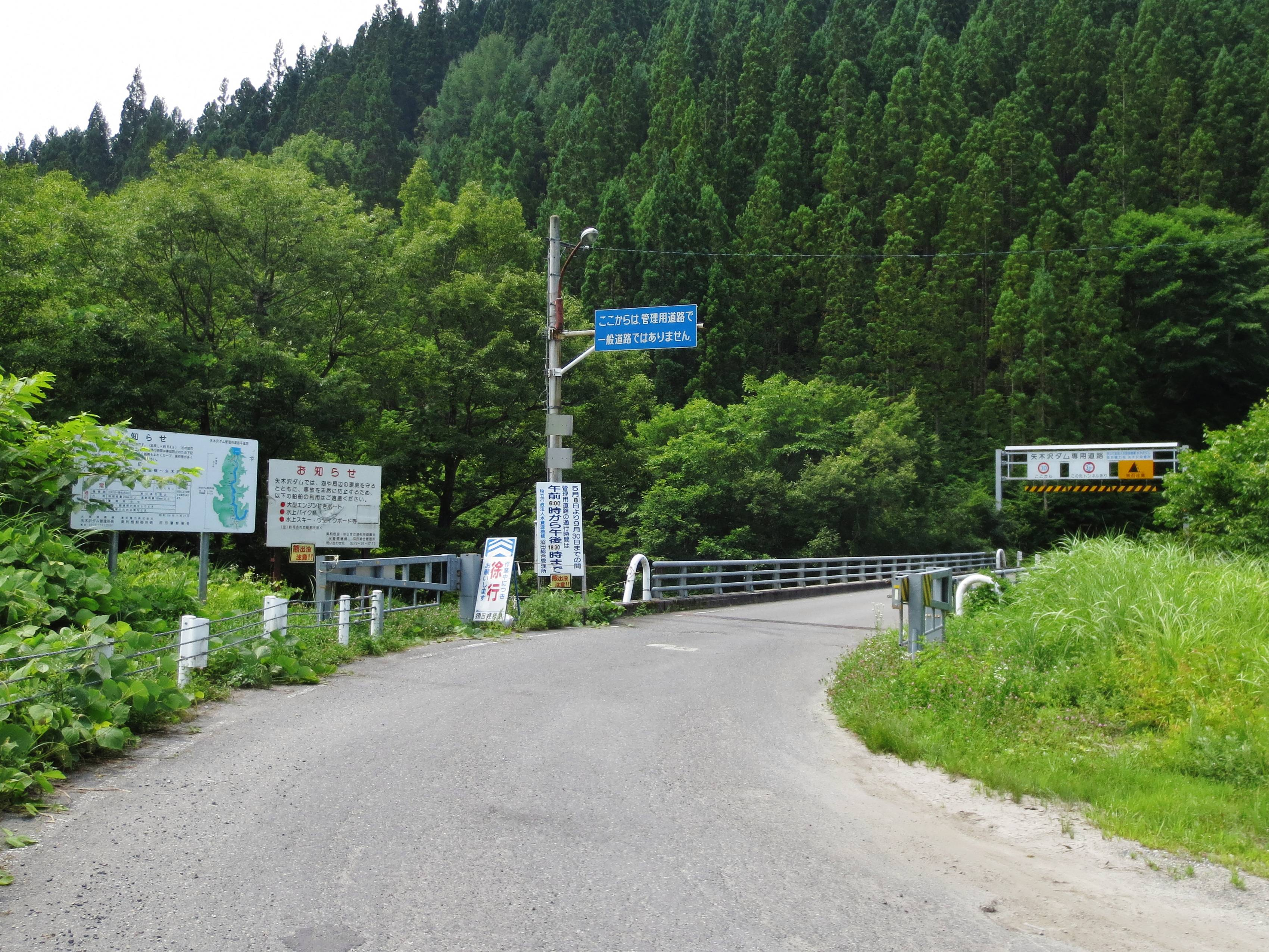 Yagisawa Dam service road.